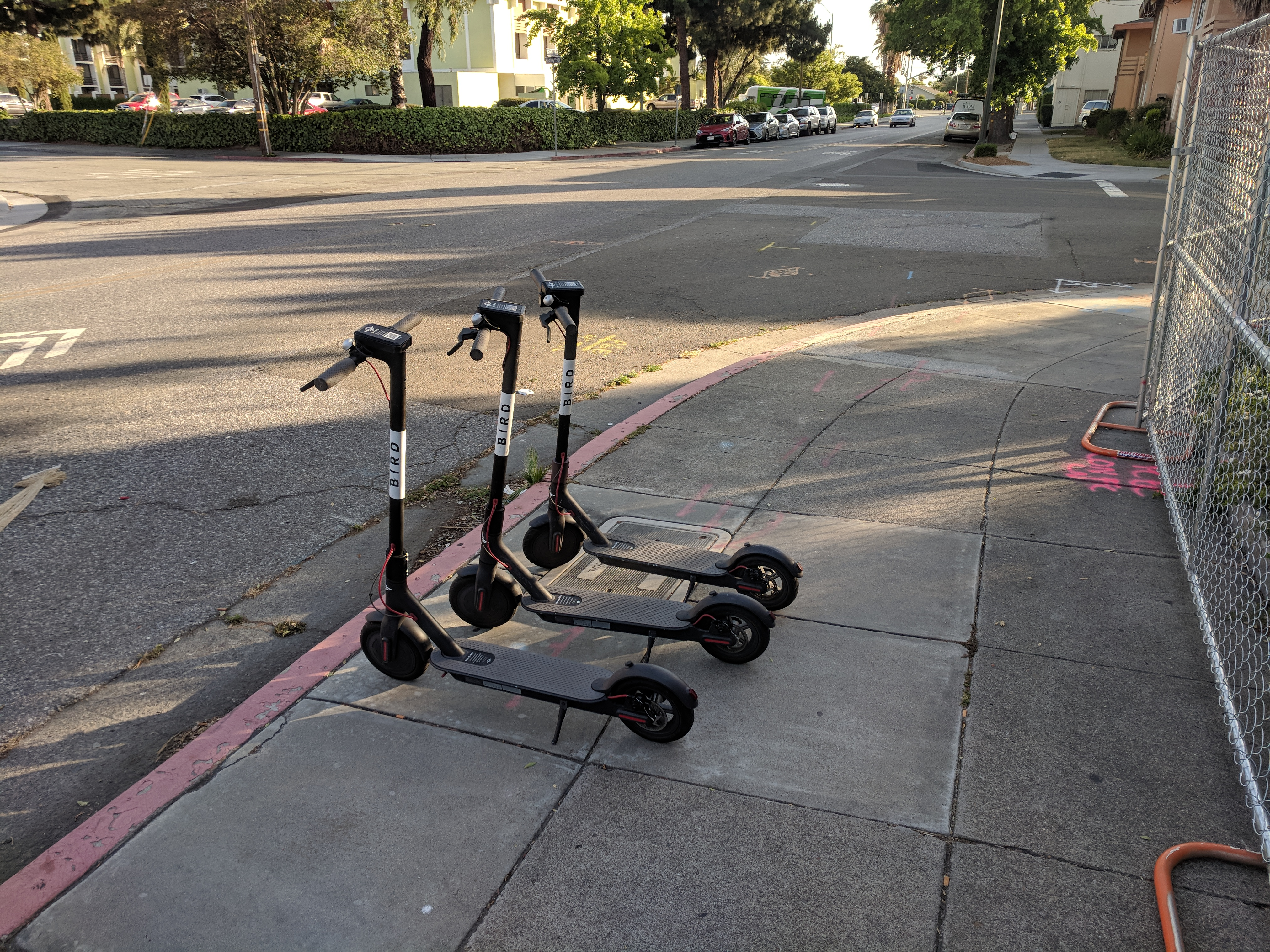 A "nest" of Bird dockless scooters on the sidewalk in San Jose, California.